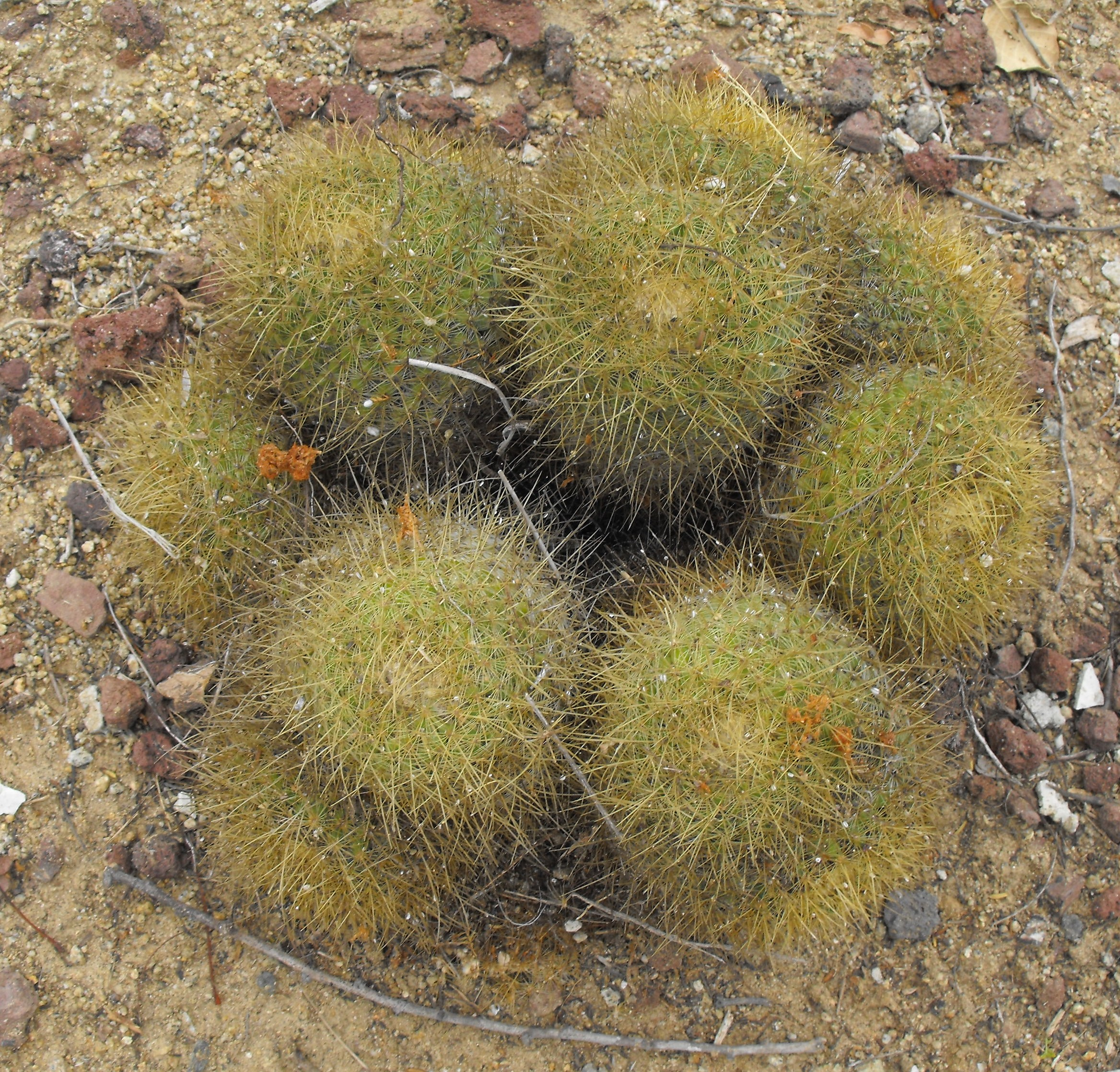 Mammillaria rhodantha ssp. pringlei at Quail Botanical Gardens in Encinitas, California, USA. Identified by sign.